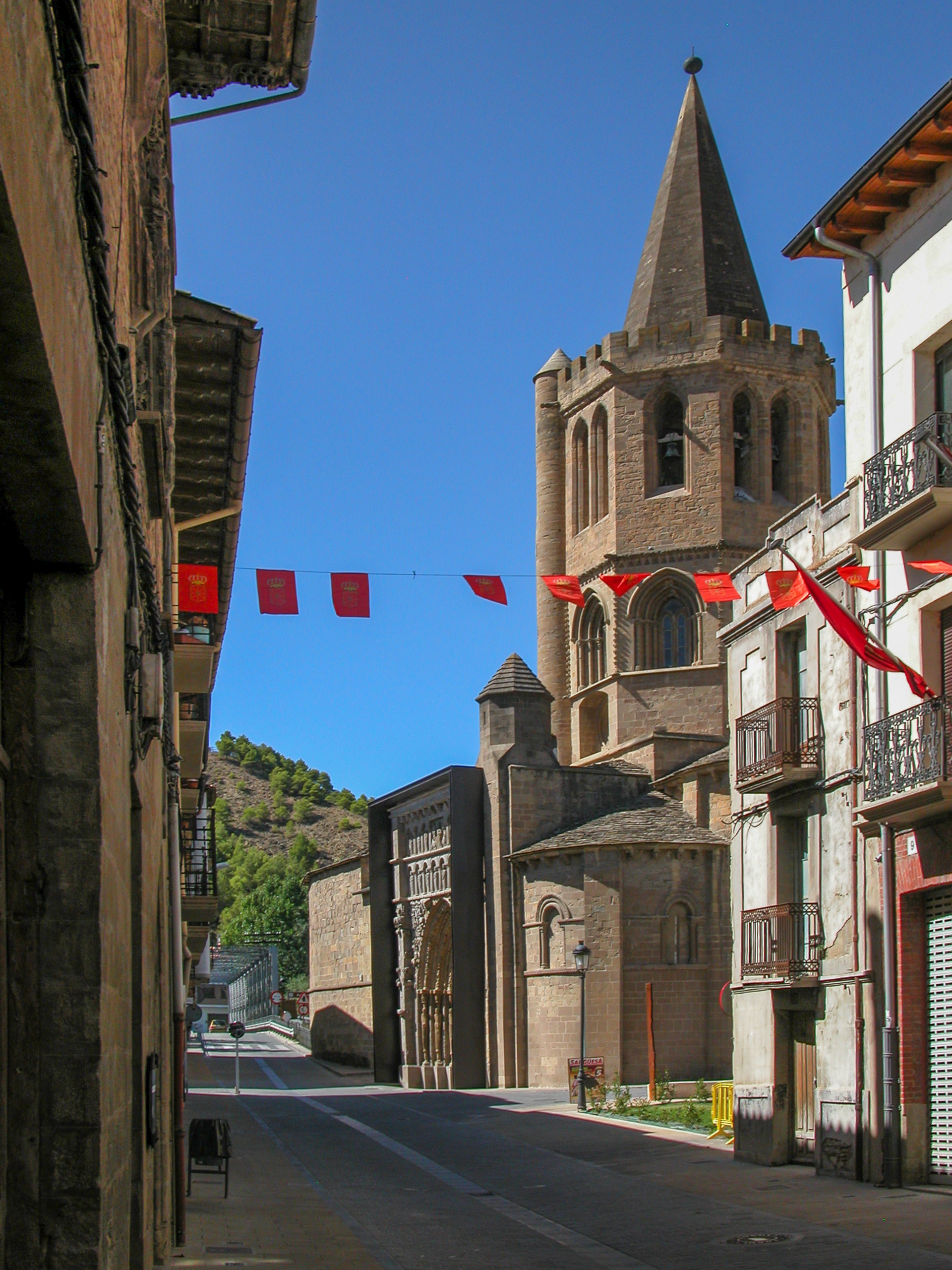 Street and church of Sangüesa